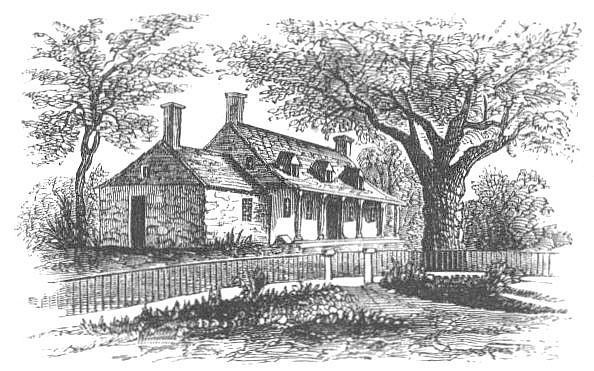 Rendering contained in PICTORIAL FIELD BOOK OF THE REVOLUTION. VOLUME II. BY BENSON J. LOSSING 1850.